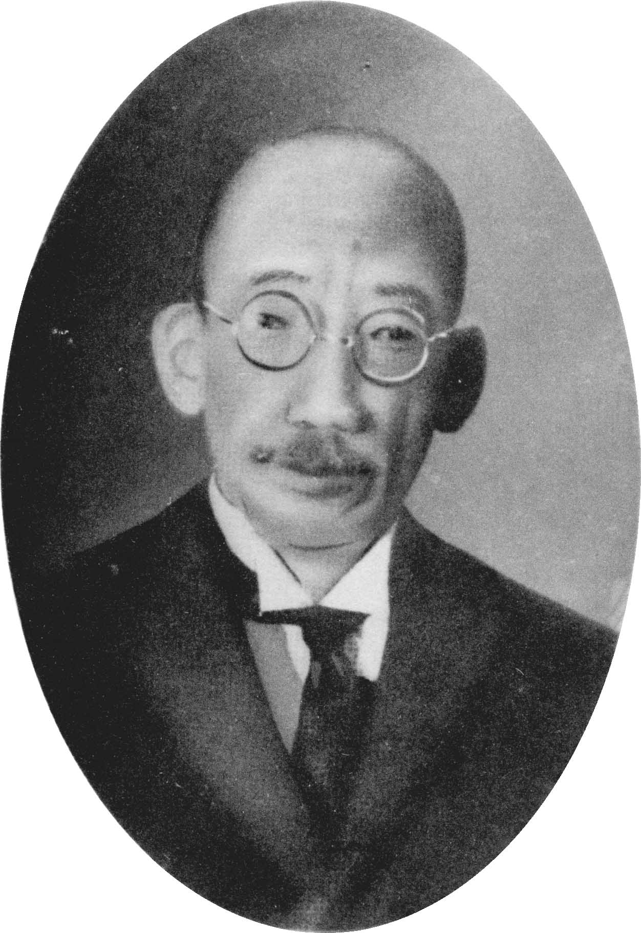 Tatsukichi Minobe, Dean of the Faculty of Law at Tokyo Imperial University.